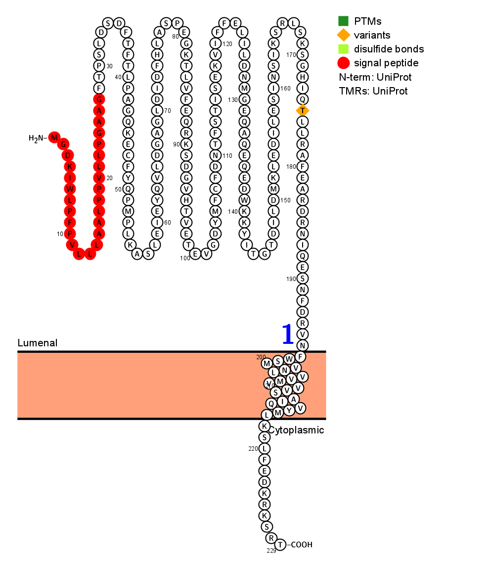 TMED5 protein visual made via Protter. Single-pass transmembrane domain with a signal peptide and short cytoplasmic tail.